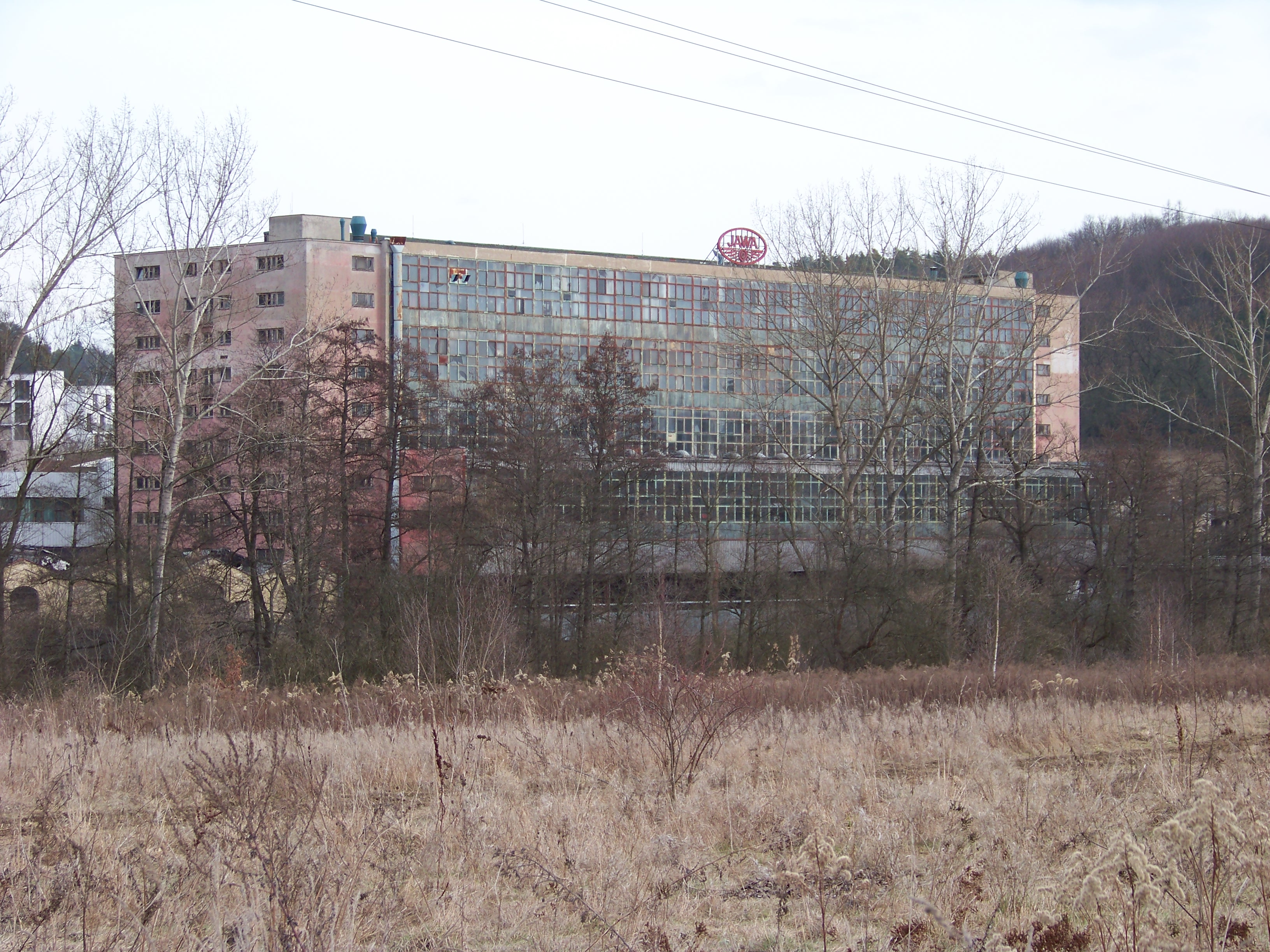 Týnec nad Sázavou, the Czech Republic. The new Jawa factory.